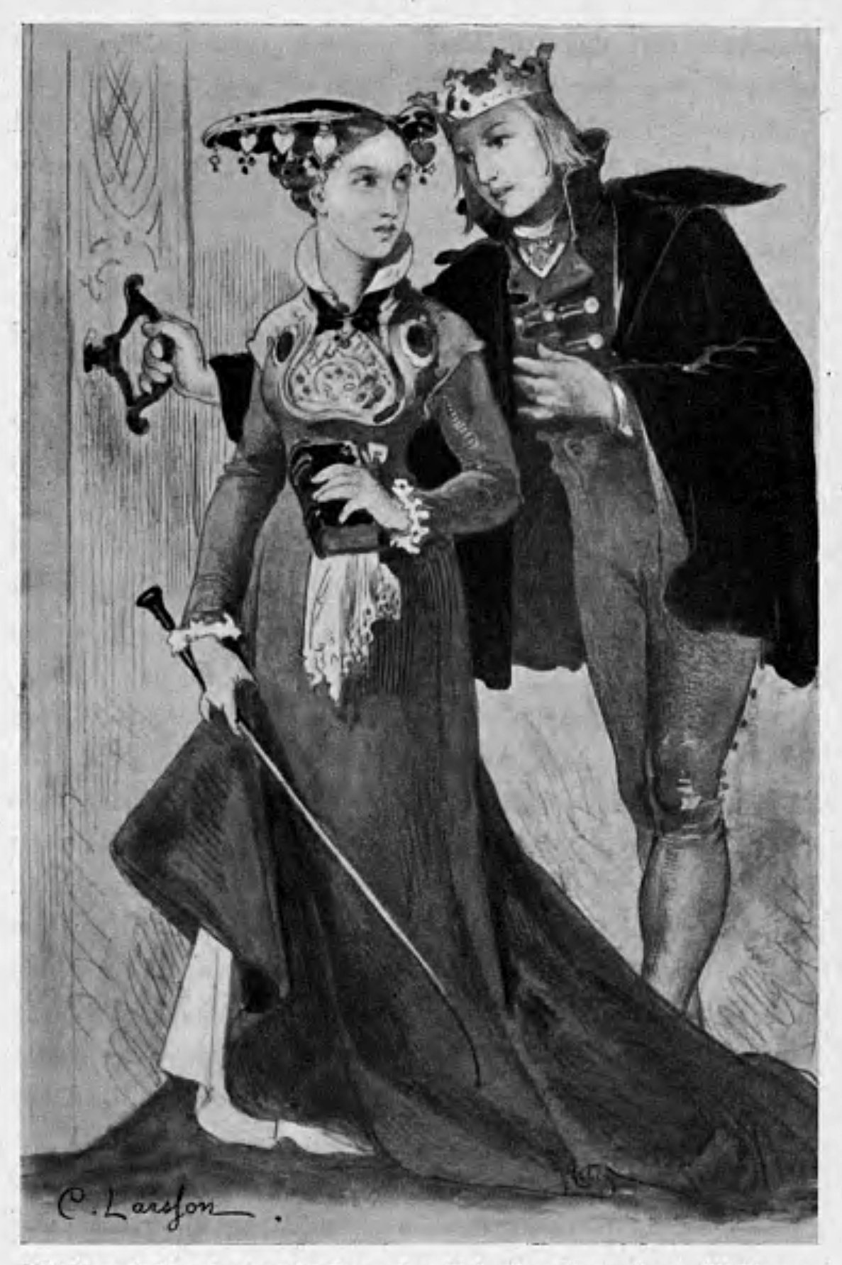 Illustration by Carl Larsson of the book "Folksagor" by Asbjörnsen and Moe, Stockholm 1927